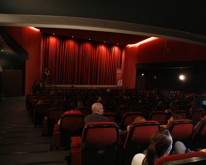 VIS Vienna Independent Shorts 2009: closing night of the film festival at the Urania Kino in Vienna.